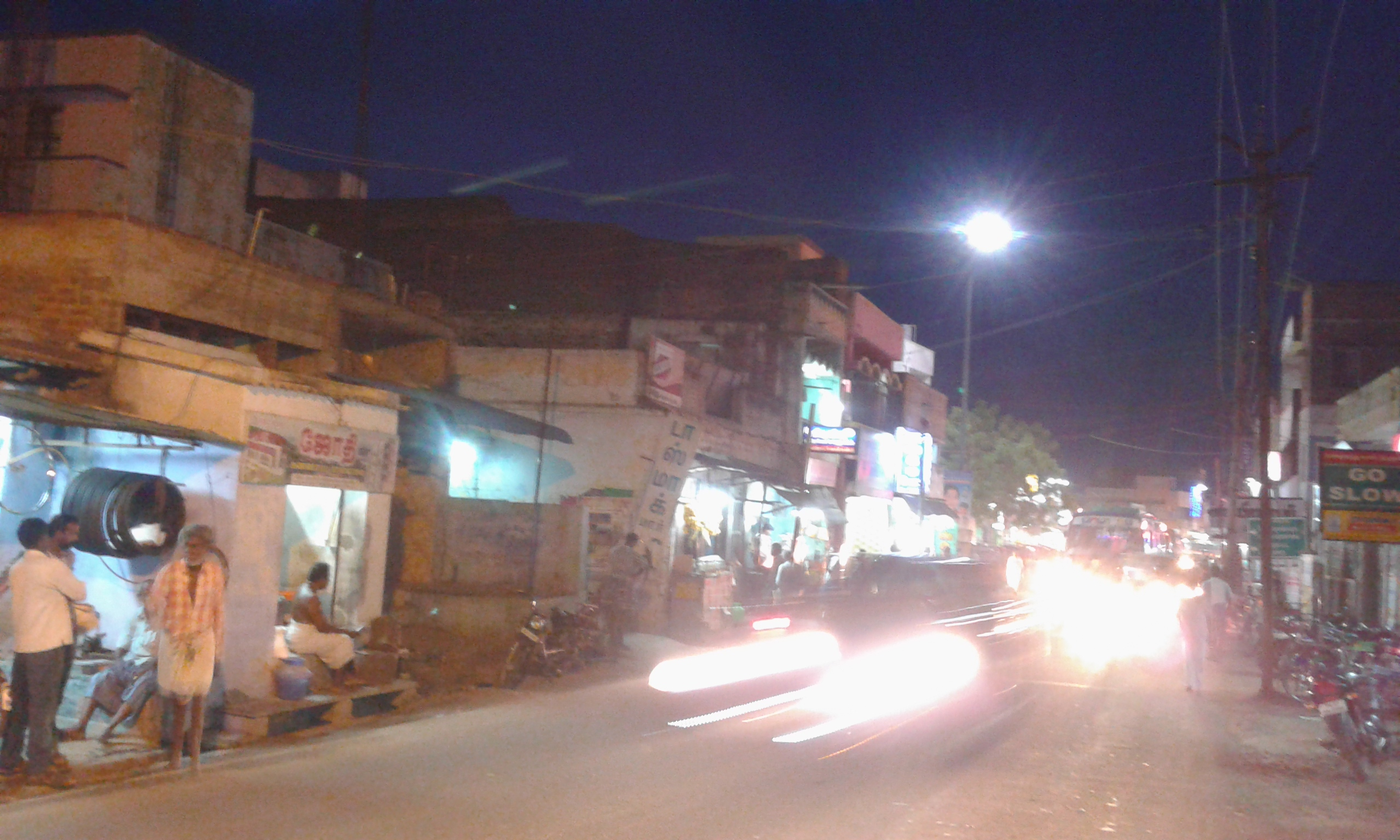 Thiruthankal